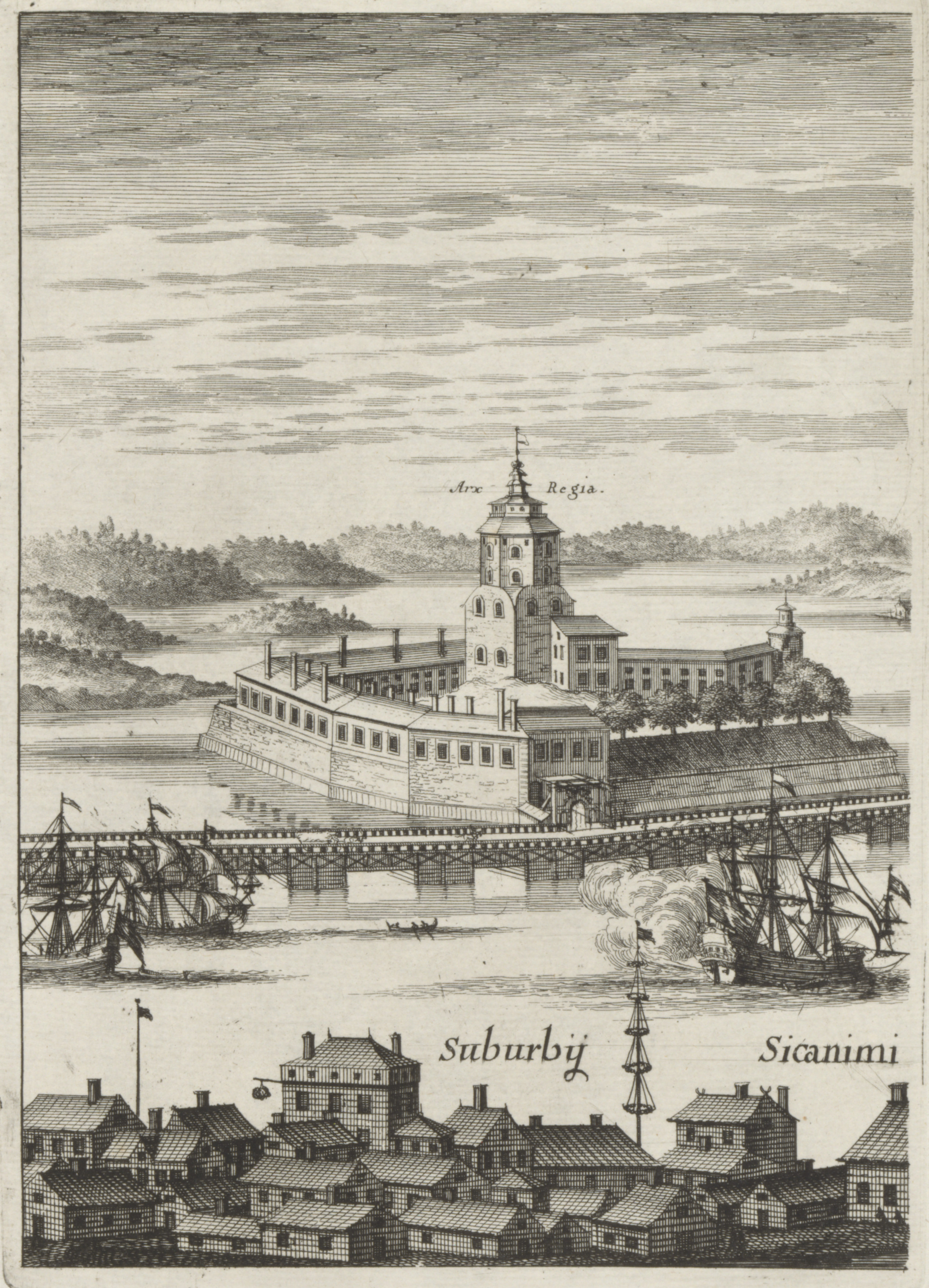 Viborg castle